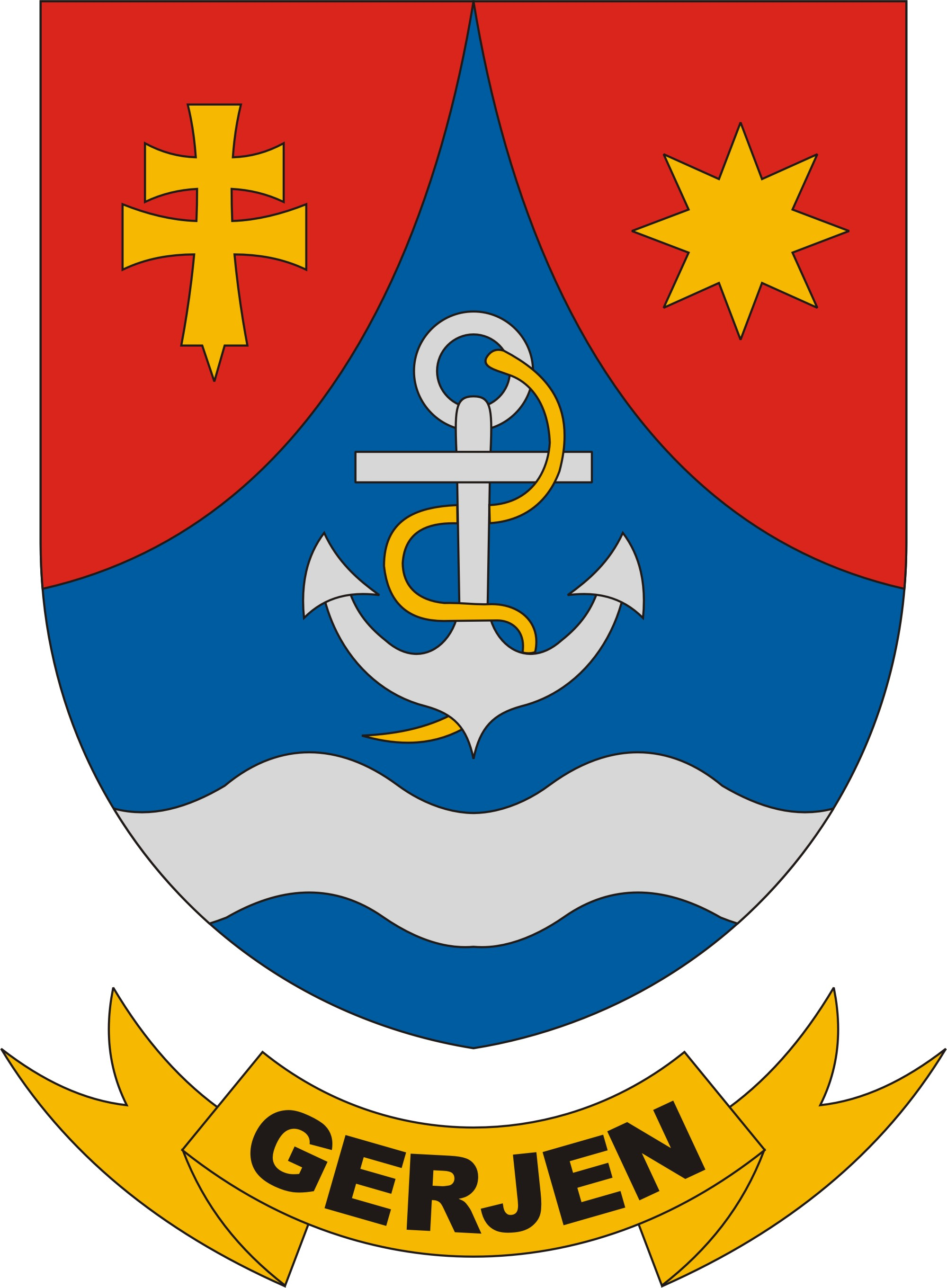 Coat of arms of Gerjen, Hungary